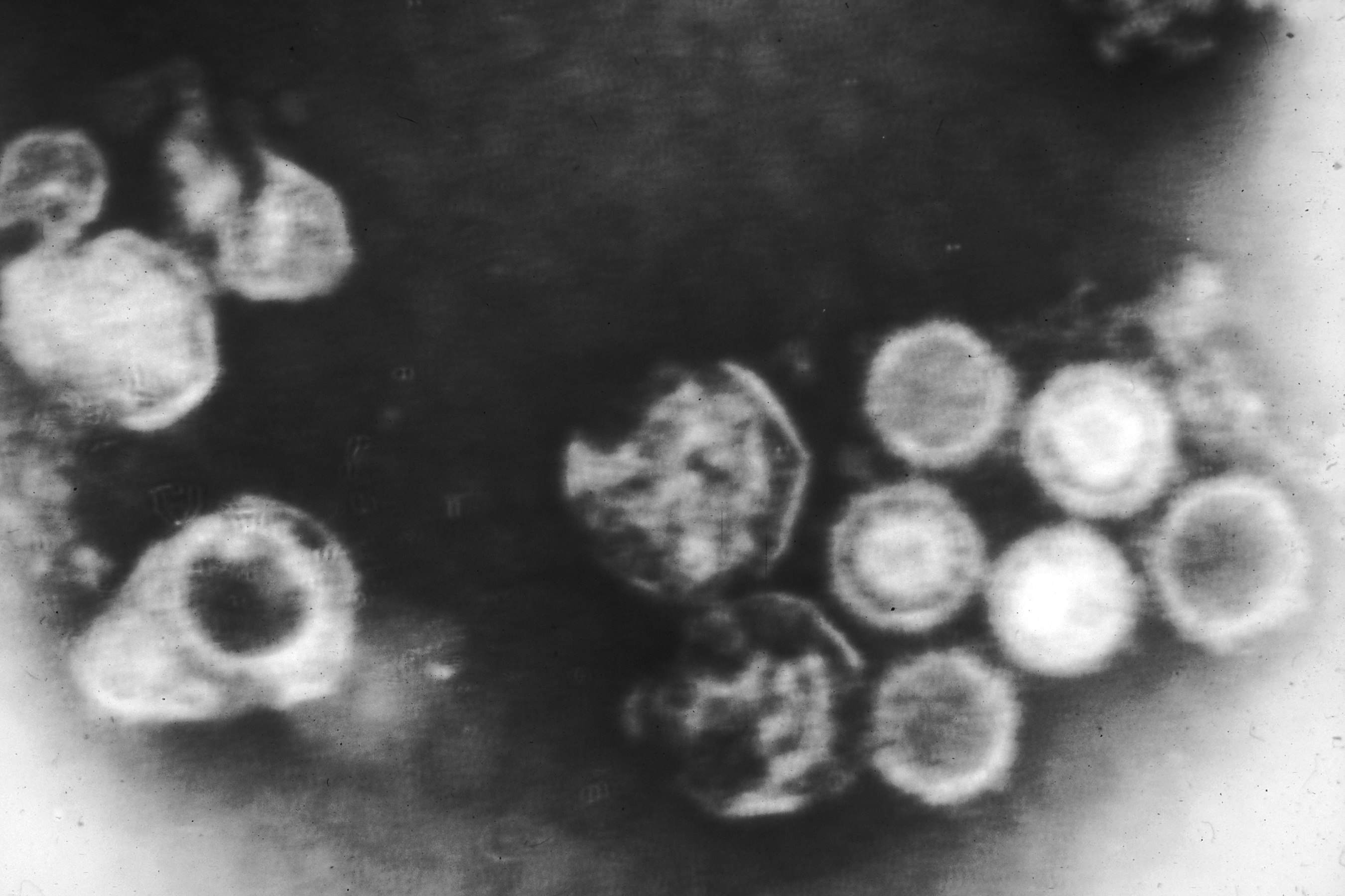 Title Epstein-Barr Virus Description Epstein-Barr virus taken through an electron microscope. Topics/Categories Cells or Tissue, Abnormal Cells or Tissue Type B&W, Photo Source National Cancer Institute